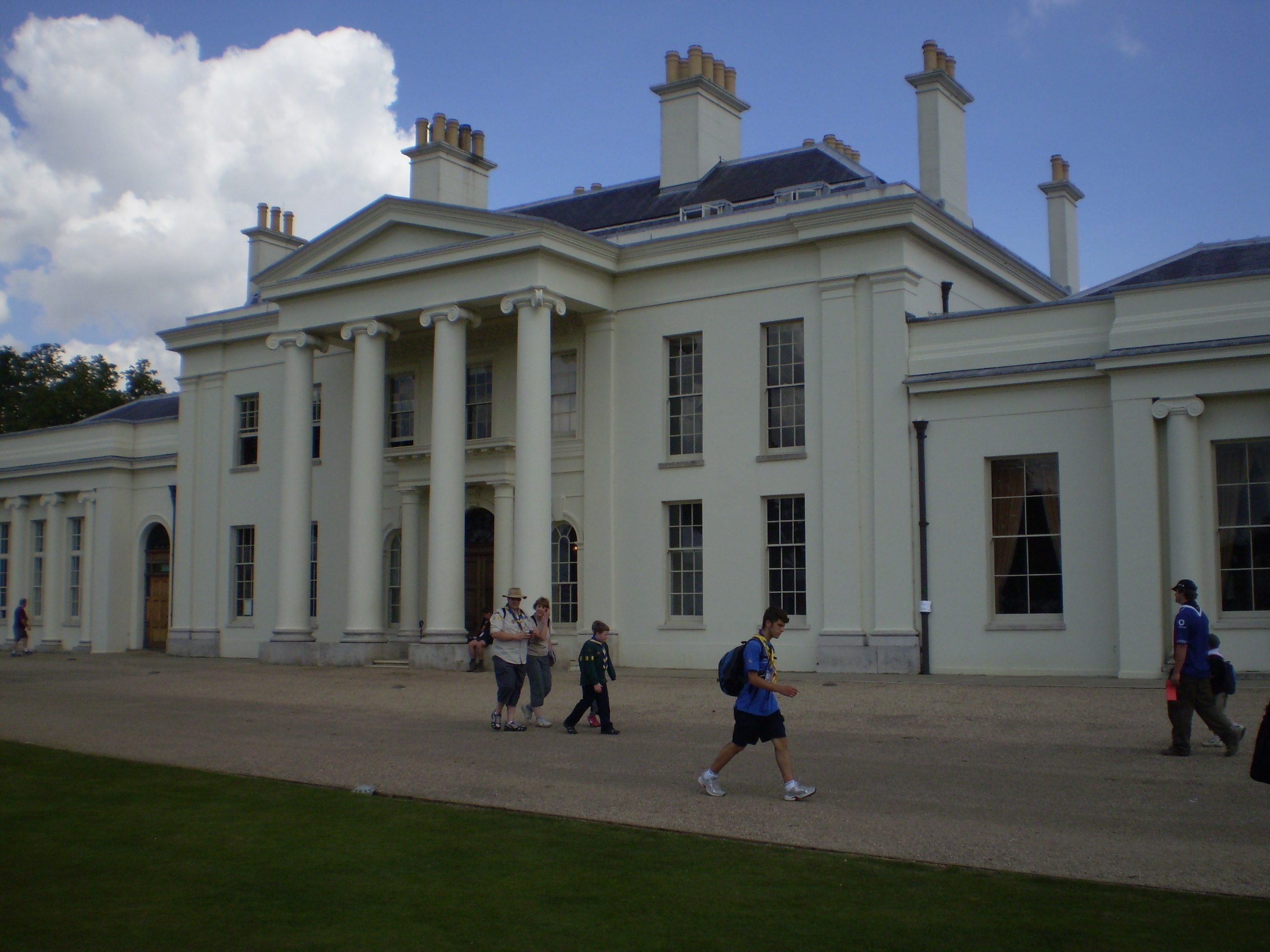 Hylands House at the 21st World Scout Jamboree